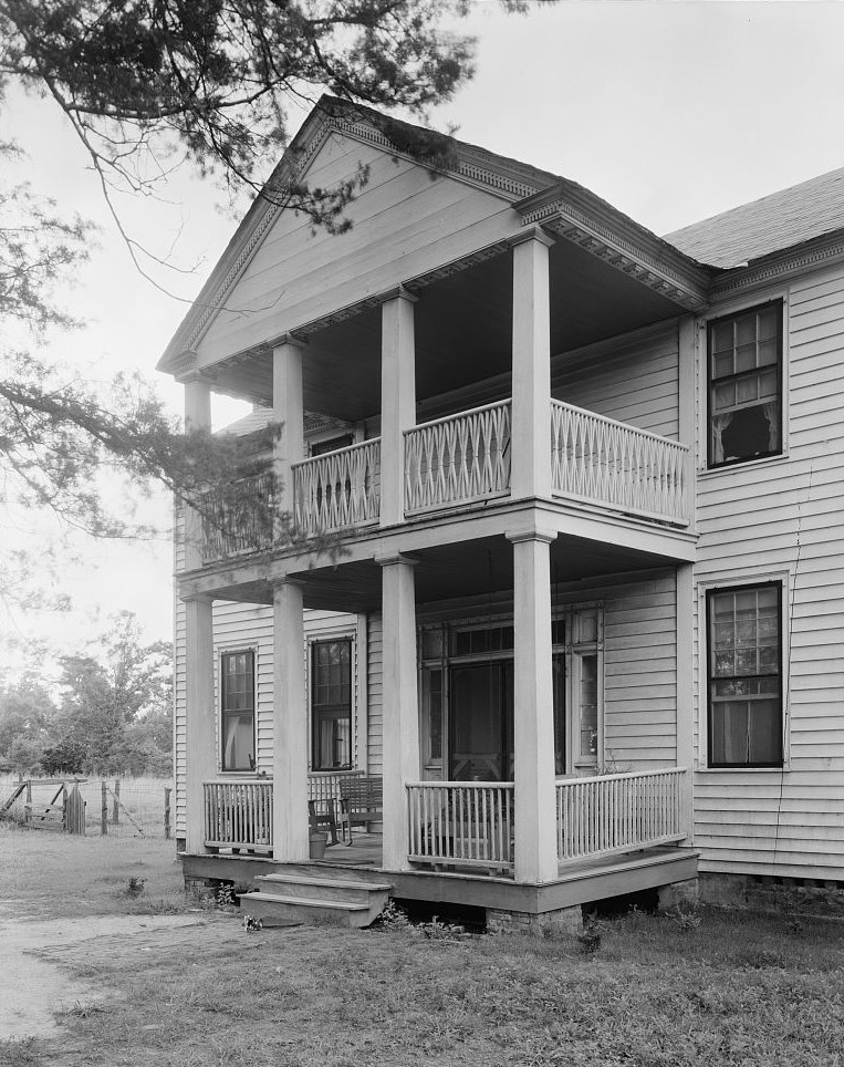 Dry Fork Plantation, built for James Asbury Tait from 1832-34. Erroneously labeled as the Charles Tait House (Charles was the father of James). From the Library of Congress' Carnegie Survey of the Architecture of the South.